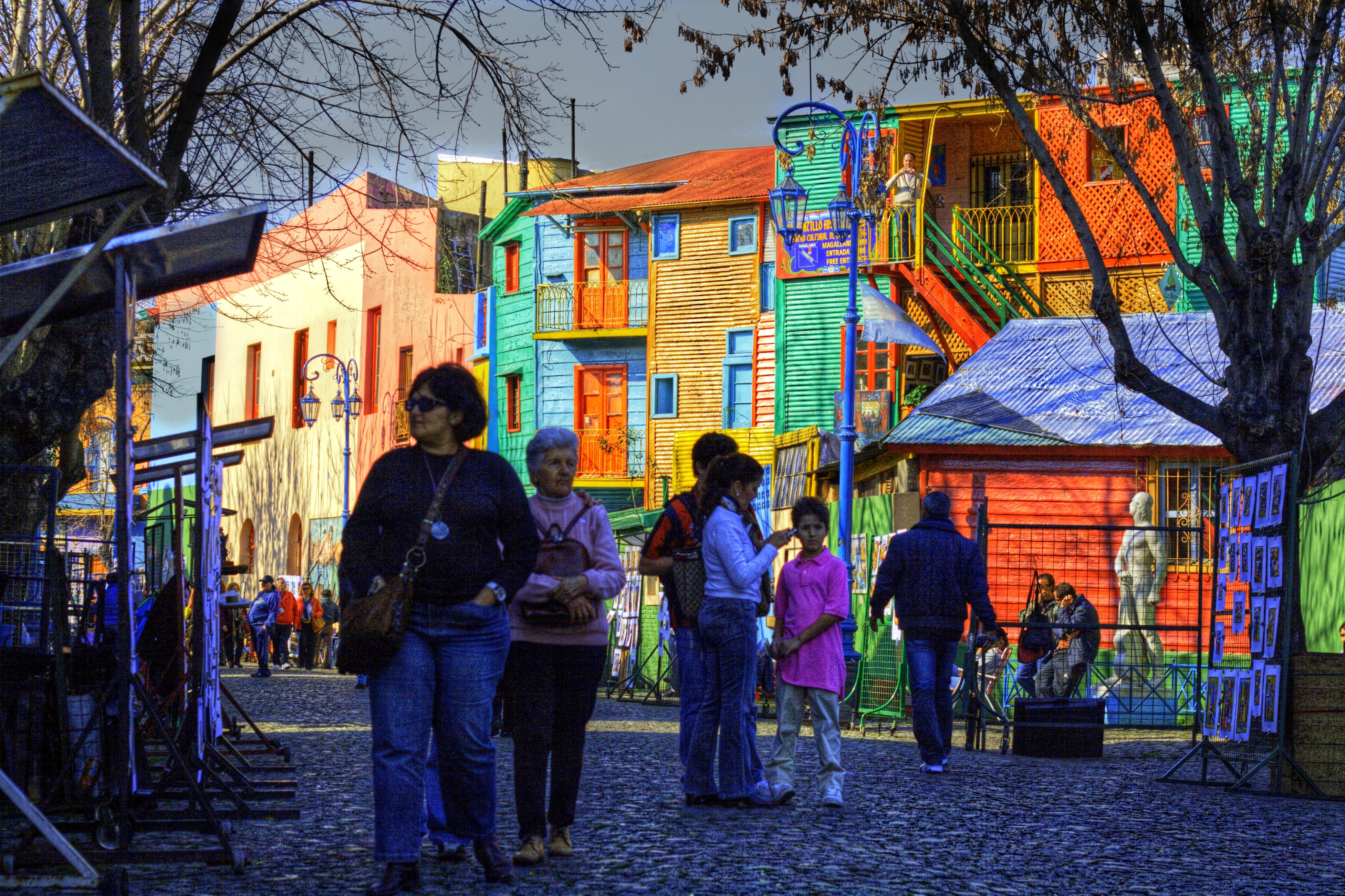 Caminito, La Boca, Buenos Aires, Argentina.